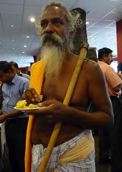 Veddha chief Uruwarige Wannila Aththo (වැදි නායක ඌරු වරිගේ වන්නිල ඇත්තෝ)